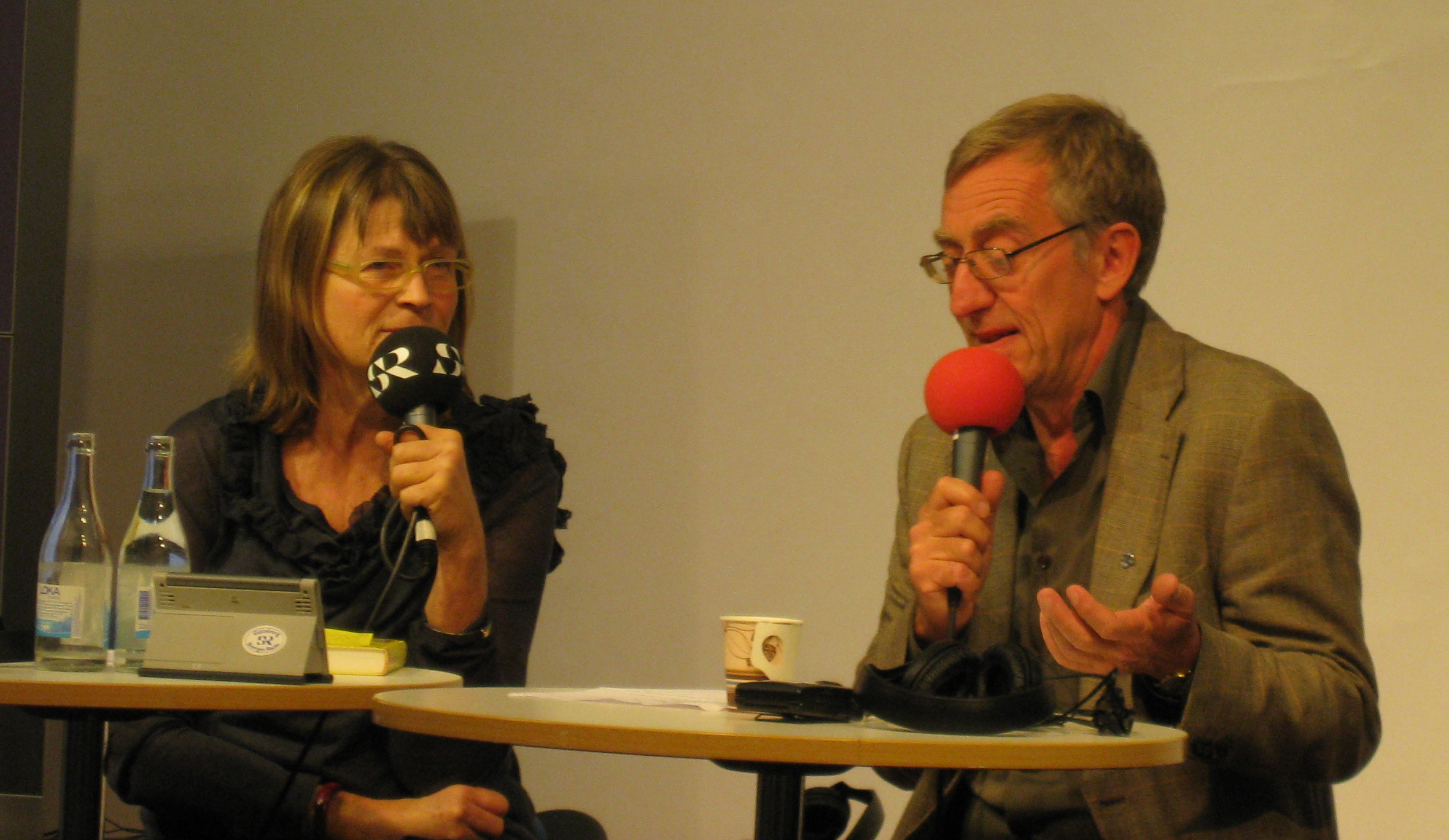 Anna Lena Ringarp and Lars-Gunnar Andersson at Bokmässan, Sweden.